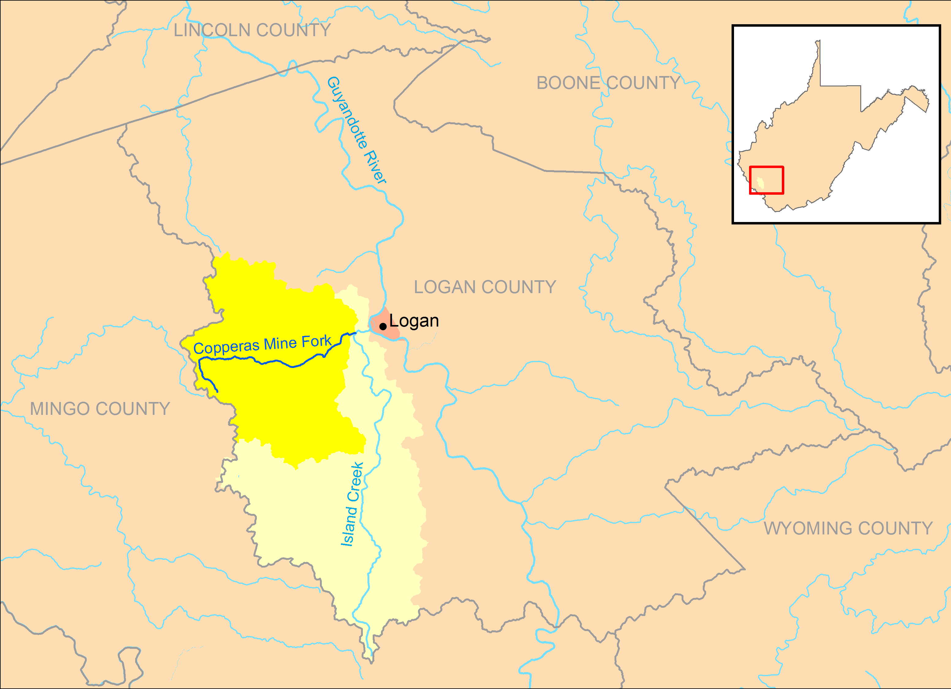 A map of the stream Copperas Mine Fork and its watershed (USGS HUC-12 050701010401) highlighted within the larger Island Creek watershed (USGS HUC-10 0507010104) in Logan County, West Virginia.